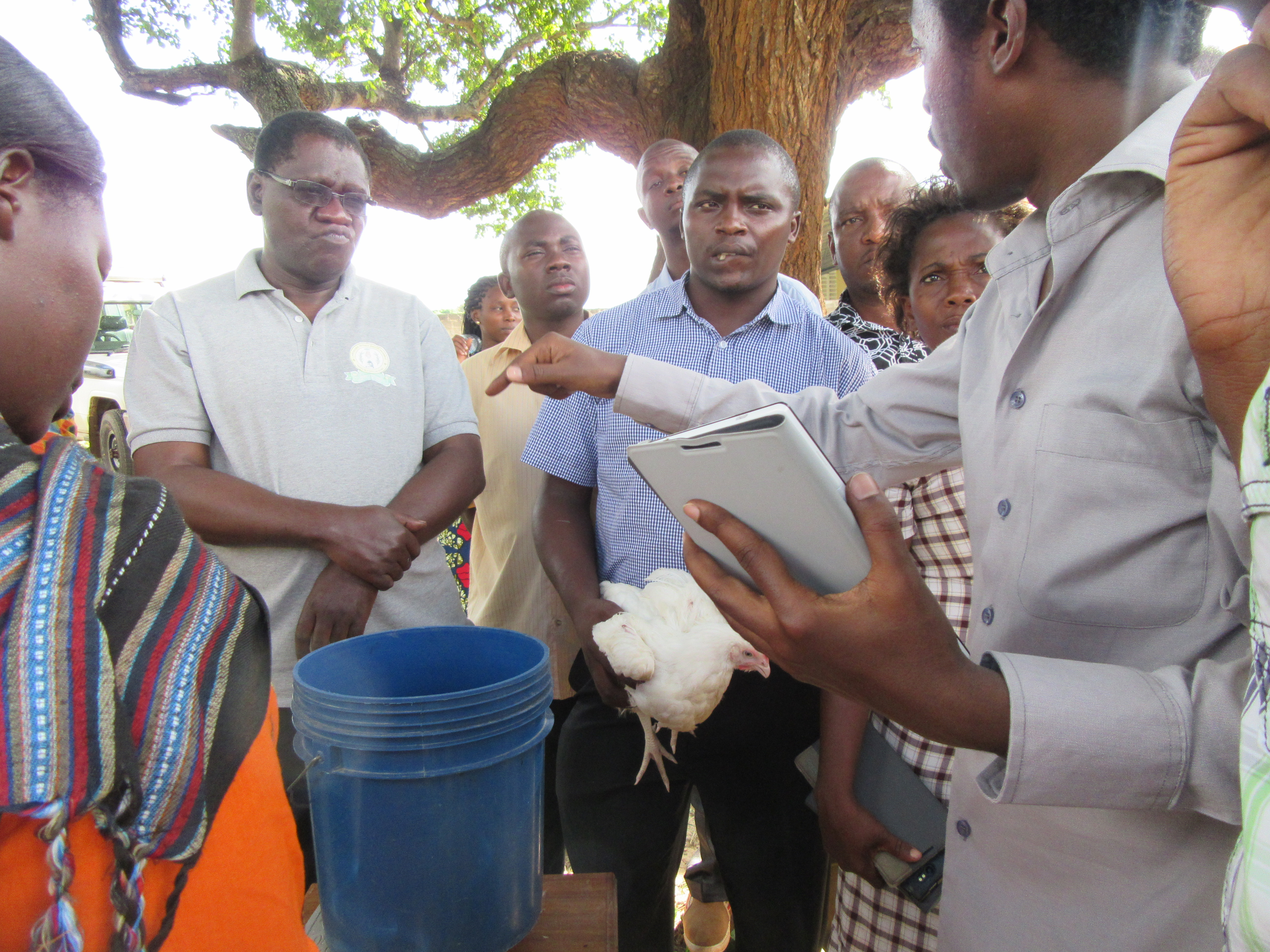 On-station demonstration of (measurement of research parameters) at Sokoine University of Agriculture (Tanzania) poultry farm